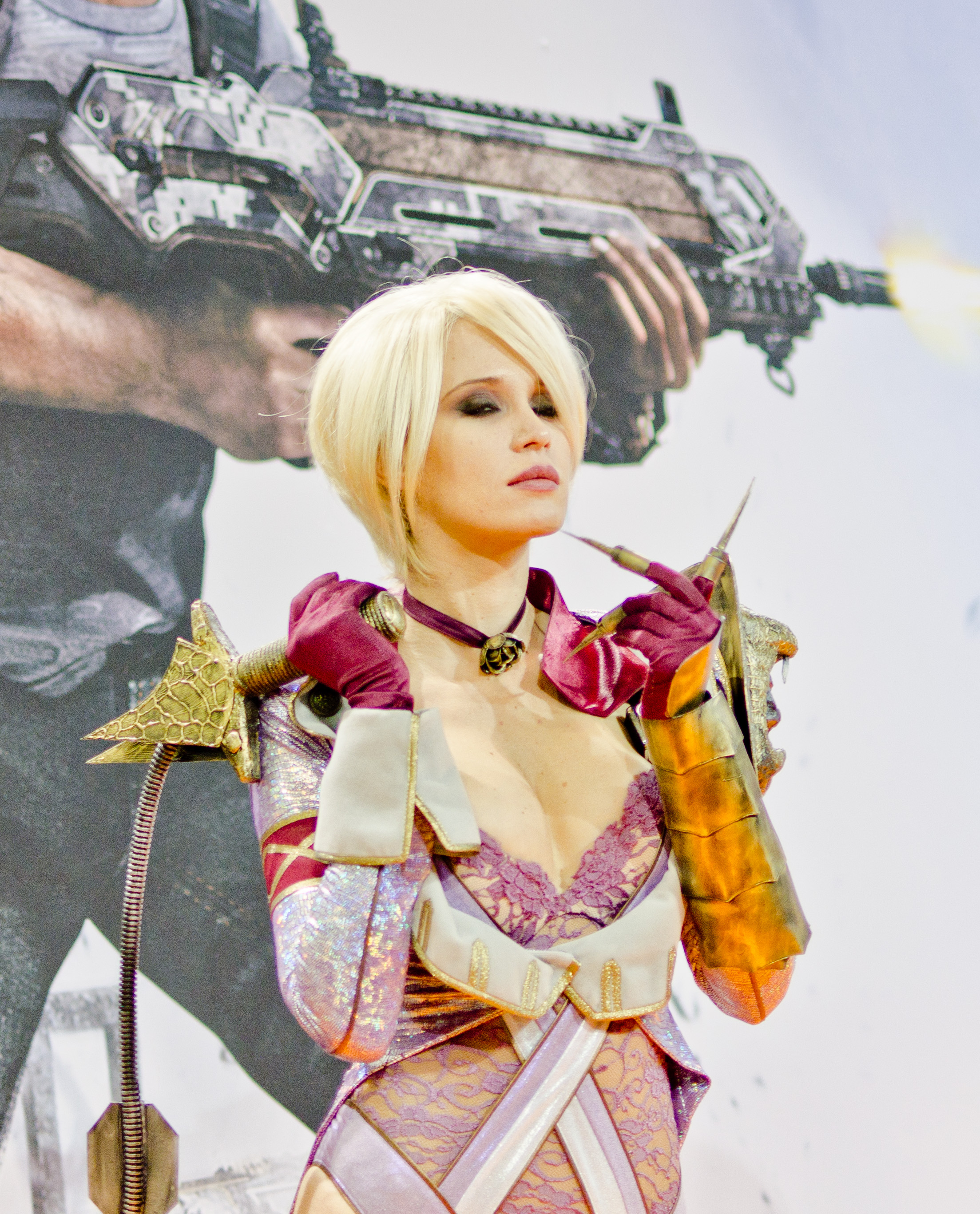 Taken on October 6, 2011 Nikon D5100